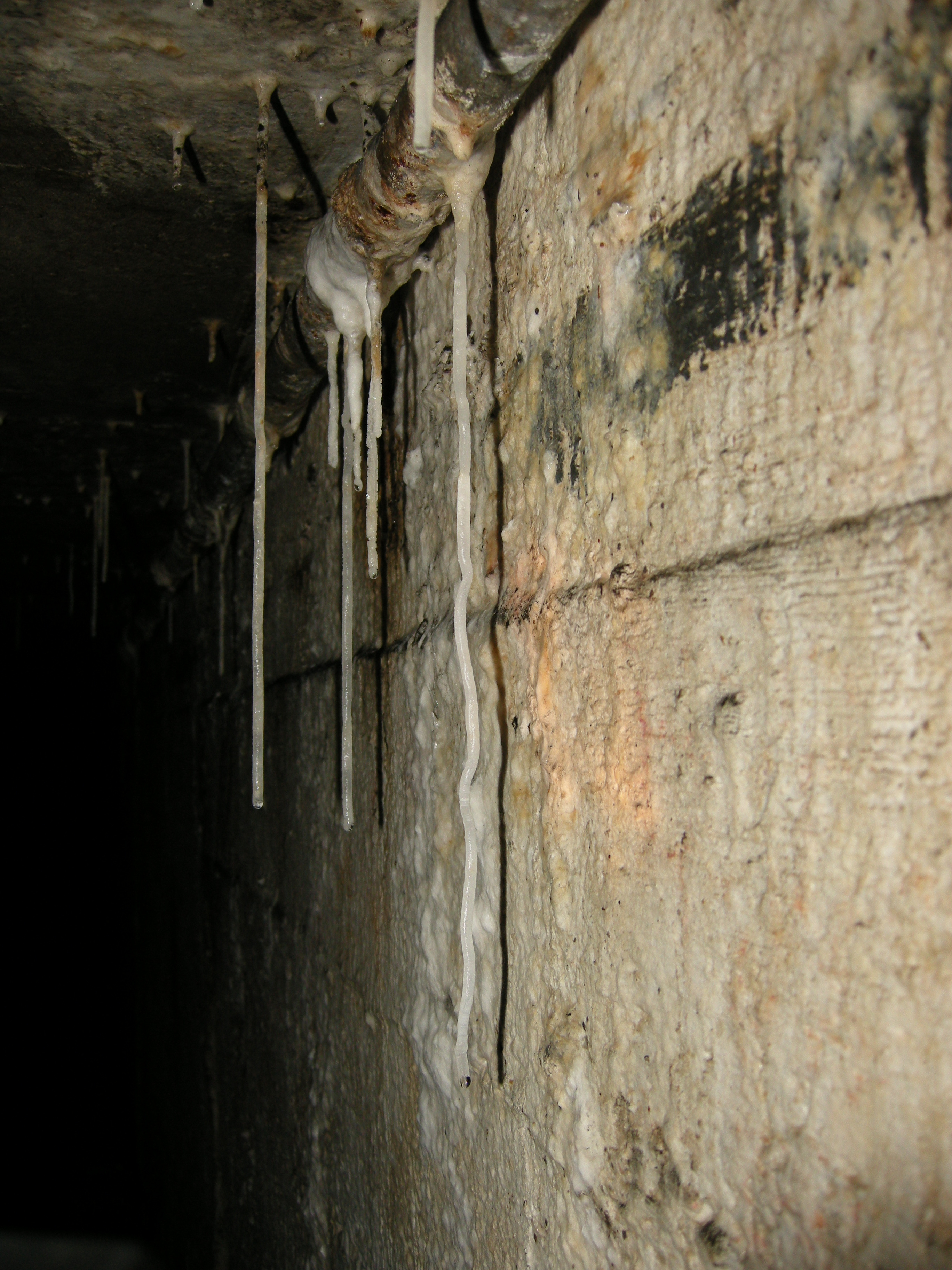 Stalactites. Salbert hill fortifications. Old NATO station. Stalactite.